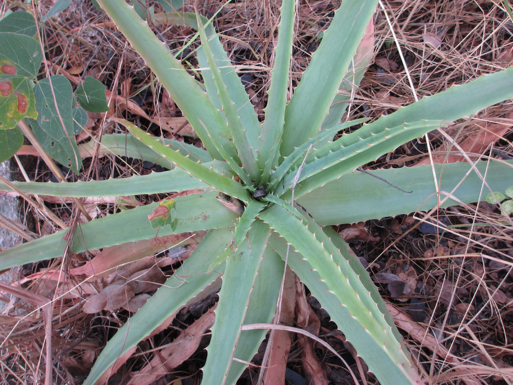 On the Makonde Plateau in Northern Mozambique. Here in its natural habitat. Vegetation of grasses and shrubs, prone to fire in the dry season.